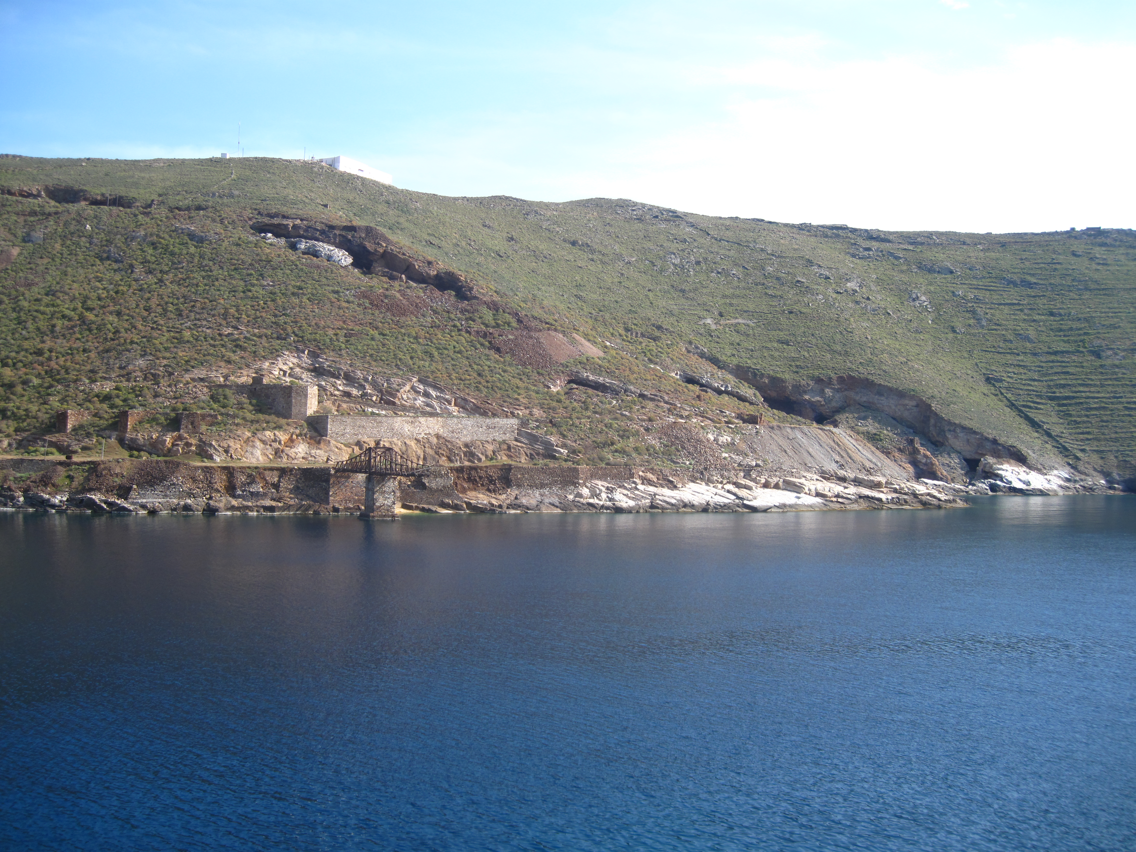 Greece - Serifos - Metalia